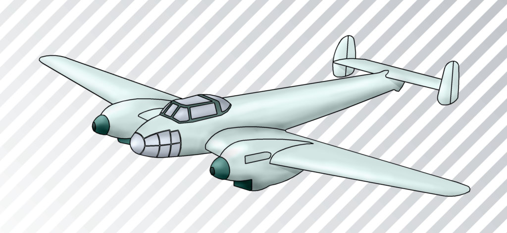 Messerschmitt Bf 162 sketch